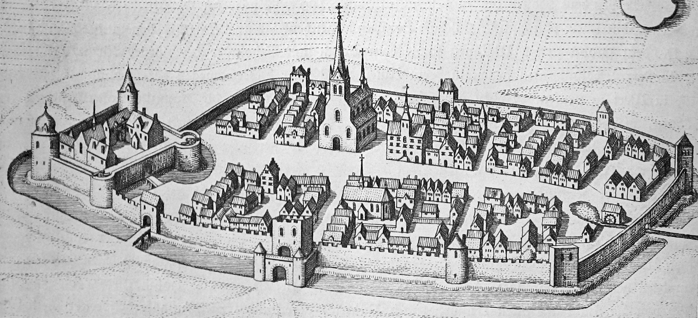 City of Werl, engraving by Matthäus Merian (d. 1650)